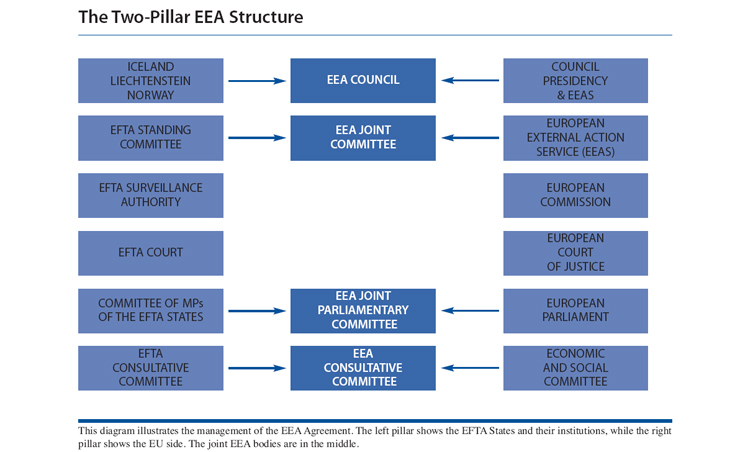 Two pillar structure for the EFTA and EU cooperation.